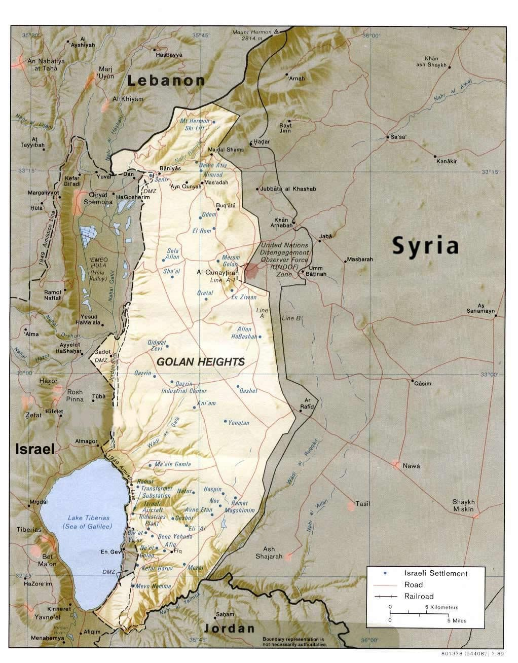 I created this image myself, by modifying the existing Image:Golan_heights_rel89.jpg, which had been in turn created by modifying the CIA (and hence public domain) Image:Golan_92.jpg. The purpose was to provide a map that was impartial about the contentious issue of which country owns the Golan Heights. I hope it will be seen as a fair compromise. I make no copyright claim on my modification; its copyright status is the same as its source. Viewfinder 14:04, 24 July 2007 (UTC)